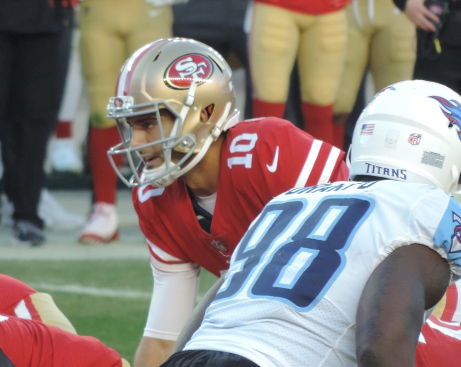 Jimmy Garoppolo with 49ers in 2017